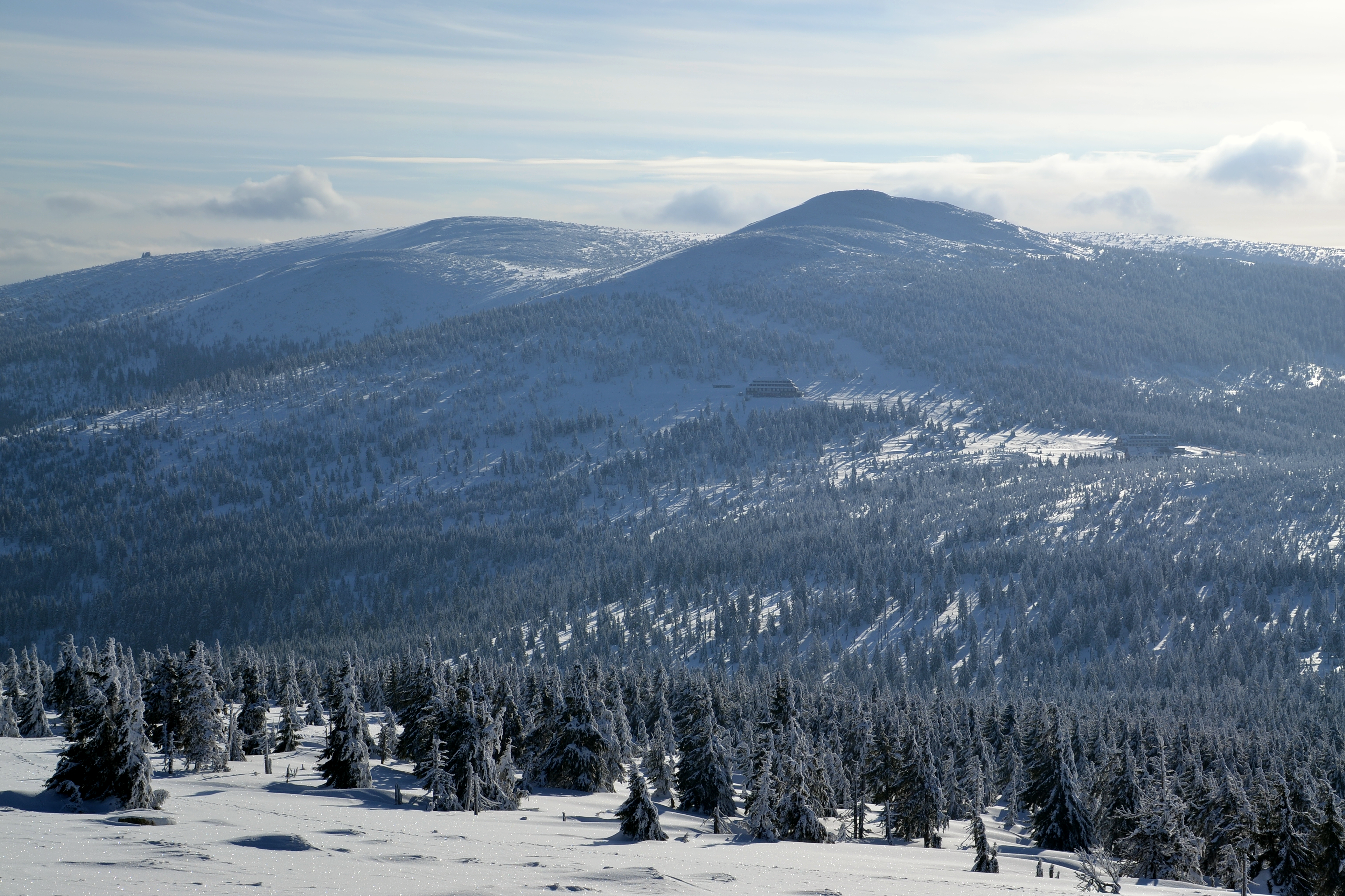 Krkonoše mountains in winter 2018